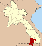 Map of Laos highlighting the province Champasak.